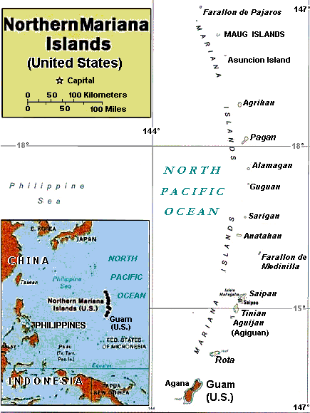 Enlarged area map of the Northern Mariana Islands.